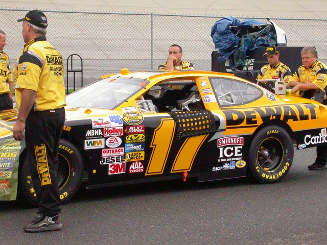 Matt Kenseth's 2004 NASCAR car being pushed out by crew